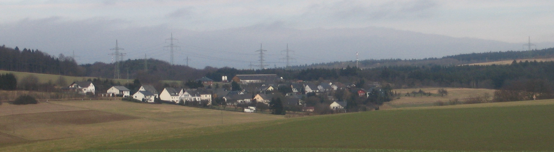 Lamscheid in the Hunsrueck landscape, Germany